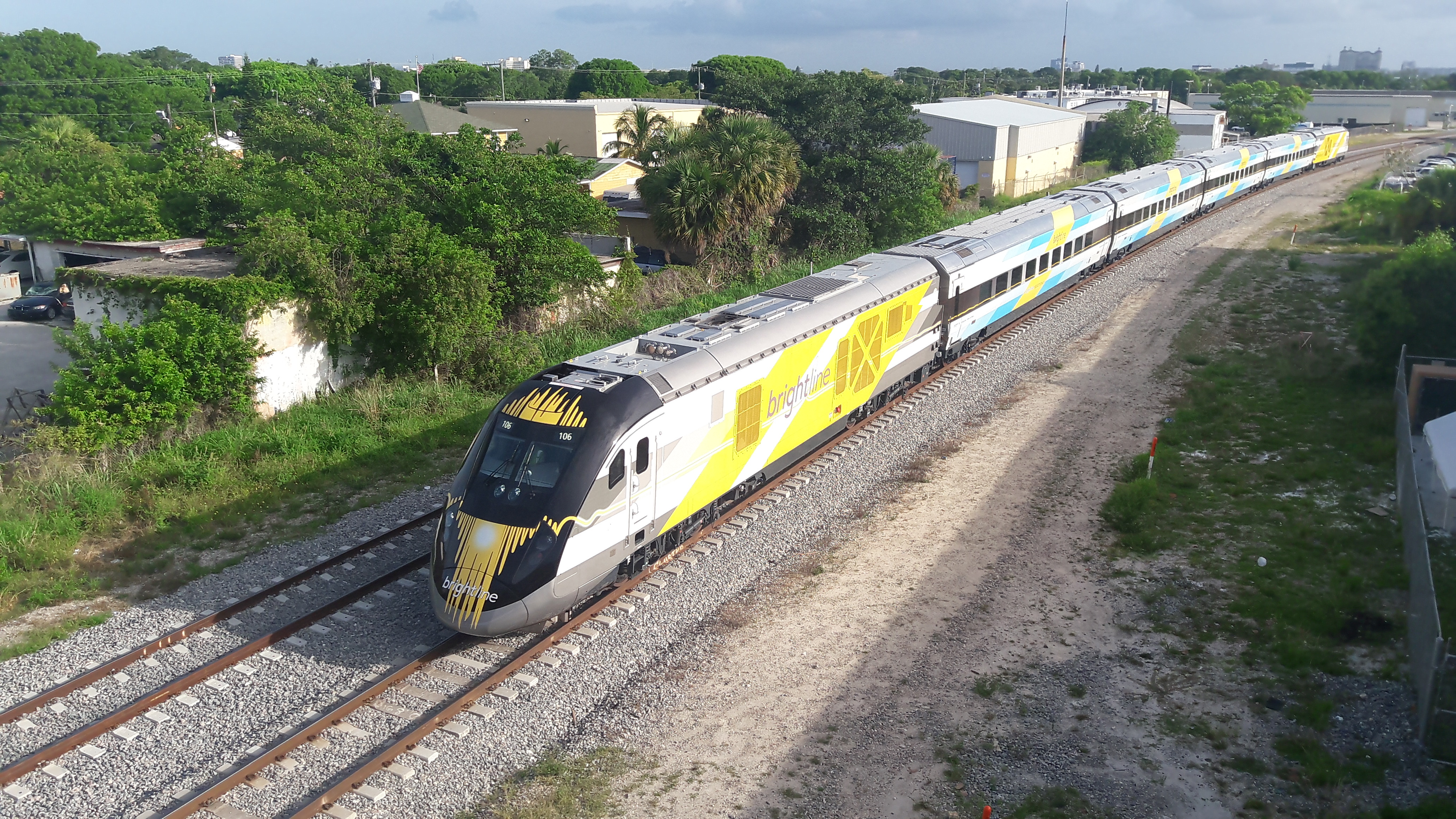 Surprise was on me today as BrightLine snuck up on me at Southern Blvd while I waited for 109.